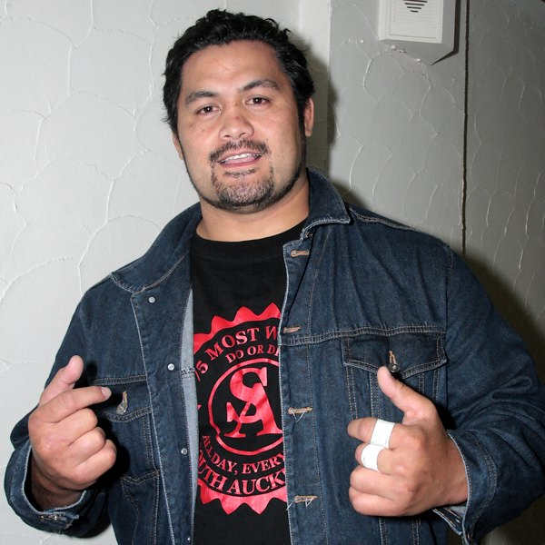 The Super Samoan Mark Hunt in Korakuen Hall after a Hustle event.